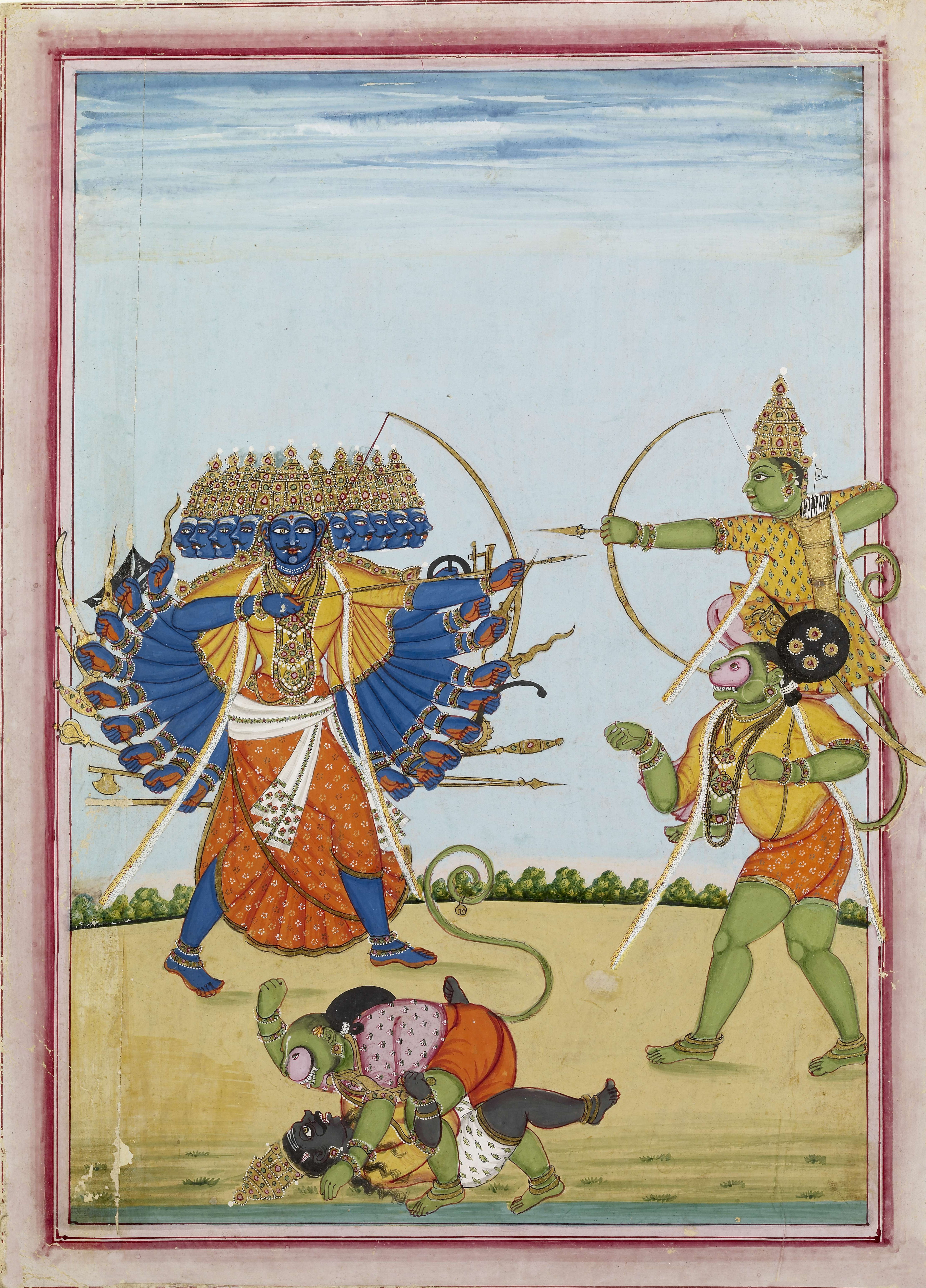 Rama and Hanuman fighting Ravana, an album painting on paper, c1820. Tanjore or Trichinopoly, Tamil Nadu, India, Around AD 1820